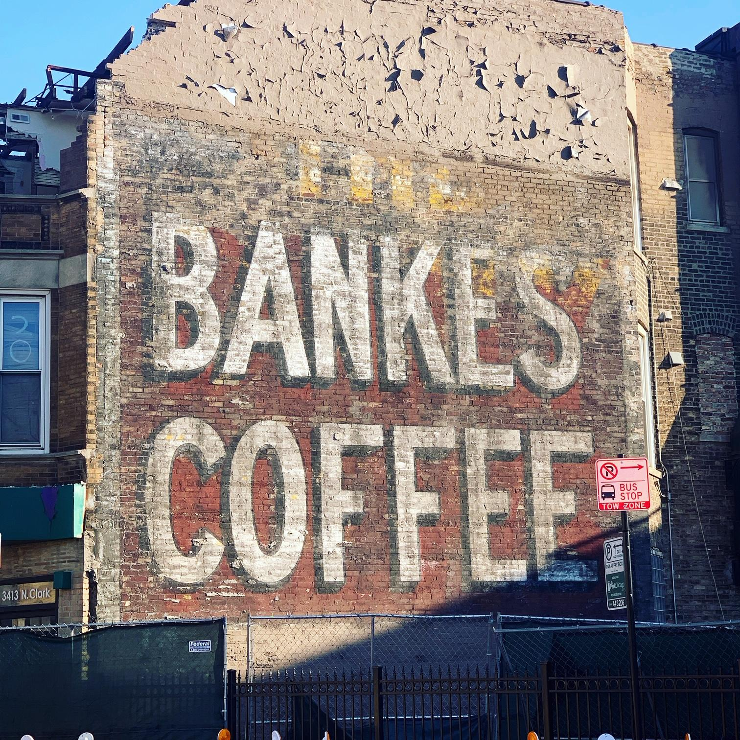 Bankes Coffee Store painted brickwork in Chicago on Clark Street.